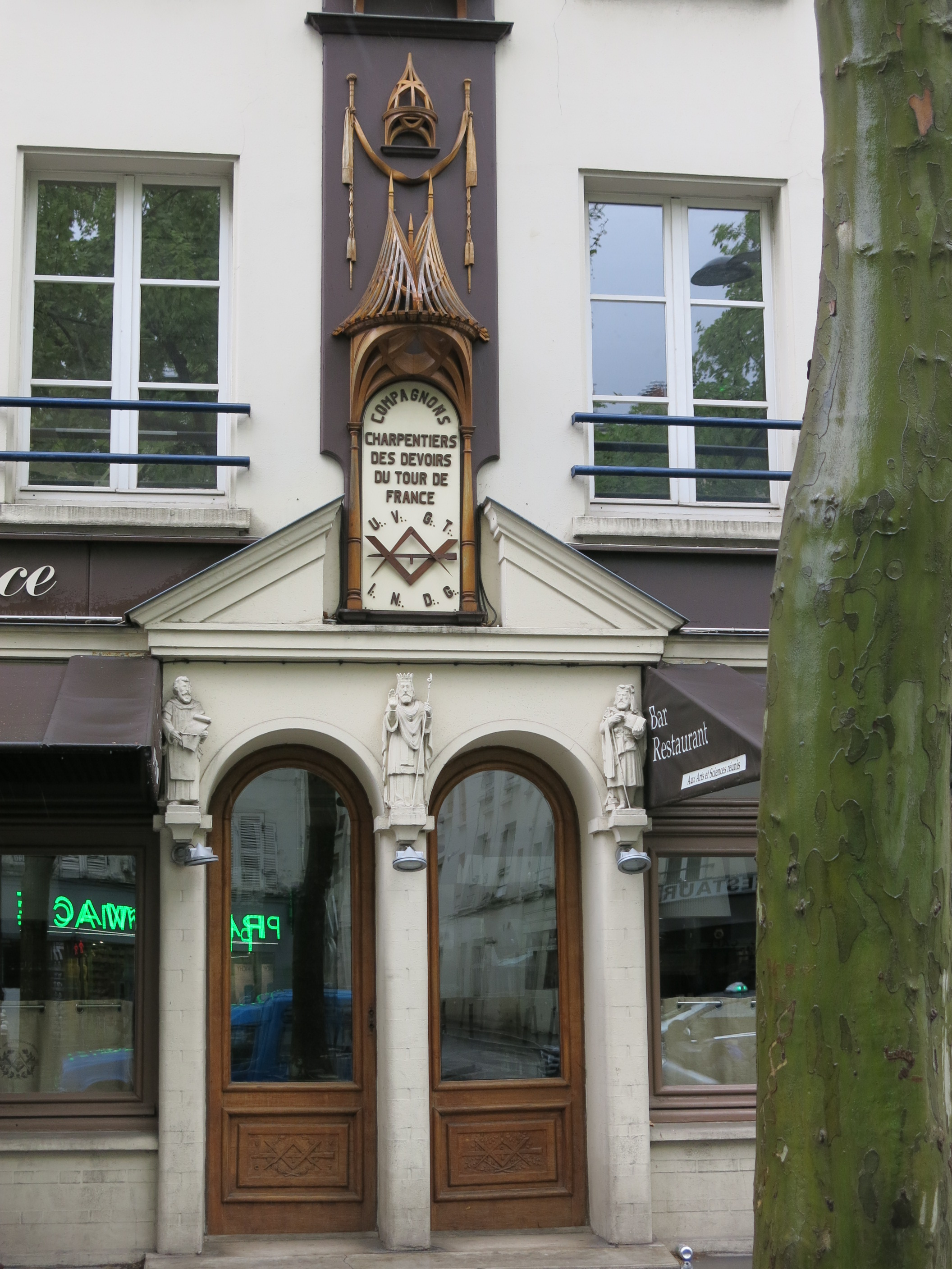 Head office of one of the schools of the Compagnons du Tour de France. 161 avenue Jean-Jaurès, Paris 19th arrond. (France).